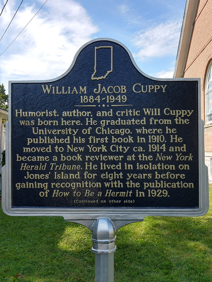 Side A of Indiana State Historical Marker at childhood home of author Will Cuppy in Auburn, Indiana, dedicated September 21, 2019.